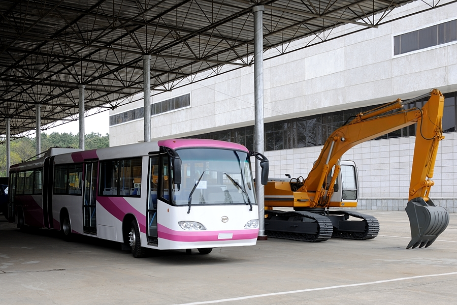 Ch’ŏllima-091 (without number) in the Three Revolutions Exhibition in Pyongyang